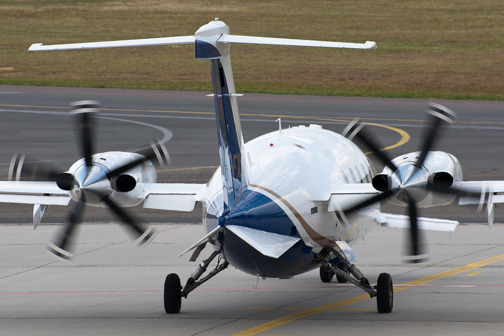 Piaggio P180 Avanti I-FXRH taxing, rear view.